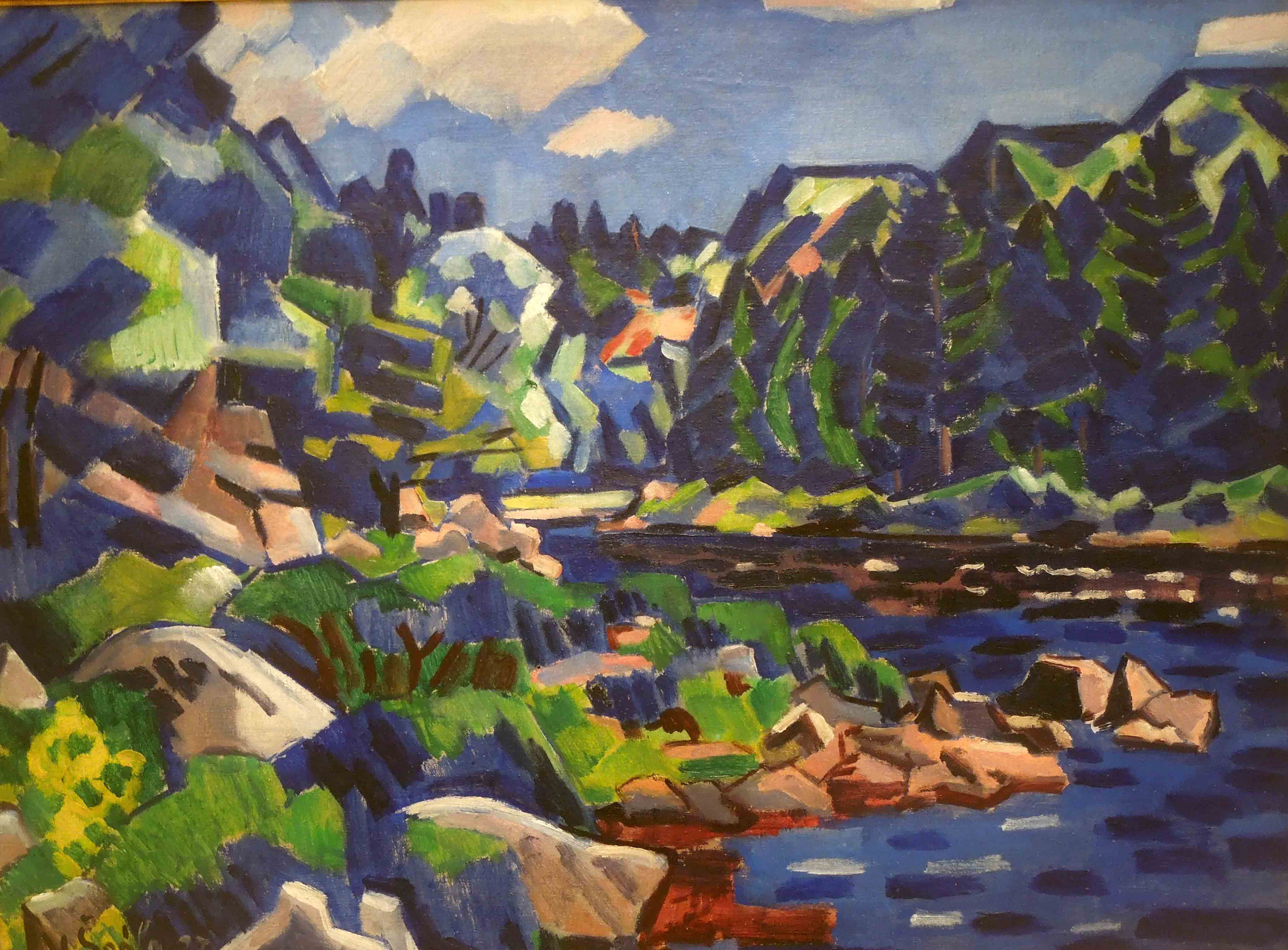 Václav Špála - The Vltava River near Červená, 1927, oil on canvas